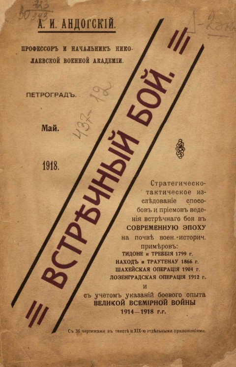 Aleksandr Ivanovich Andogskiy